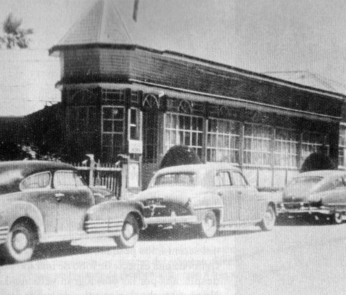 Hotel Ross in the 1930s.